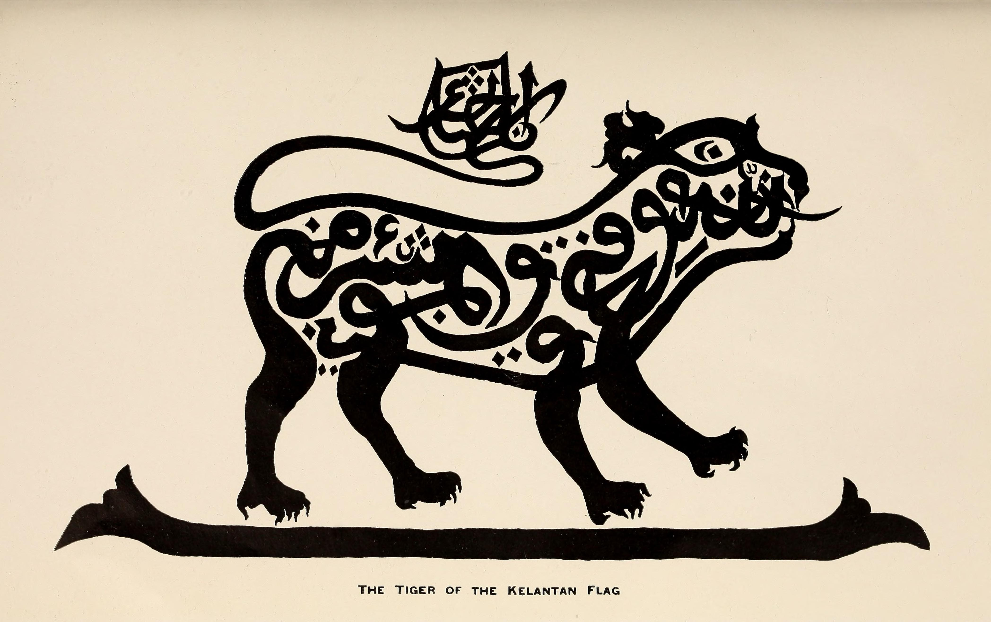 Title: Journal of the Straits Branch of the Royal Asiatic Society Year: 1878 (1870s) Authors: Royal Asiatic Society of Great Britain and Ireland. Straits Branch Subjects: Malayan languages Publisher: Singapore Text Appearing Before Image: A mm ivv^ FLAG OF THE STATE OF KELANTAN Text Appearing After Image: New and Rare Malayan Plants, Series IX. By H. N. Ktdley, f.r.s. In continuing my work on the Flora of the Malay Peninsula,I find a number of plants in the earlier collections which have beenoverlooked and not described, as well as several genera in which thespecies, chiefly described from more or less inadequate dried speci-mens, seem to have been much confused; such genera are Glycosmis,Ventilago and Allophyllus. In critical genera like these a reallybig series of specimens is required and this we seldom possess inany tropical genus. Some also differ more in habit than in whatmay be called herbarium characters. In the field one could not mis-take the one for the other; but specimens without adequate notes asto height, and form of growth may look so far similar that a botanistwho has not seen the plants alive may easily be led into thinkingthat they are all mere forms of one somewhat variable species. Wereally want more collecting and observation done. I have been sur-prised to note h